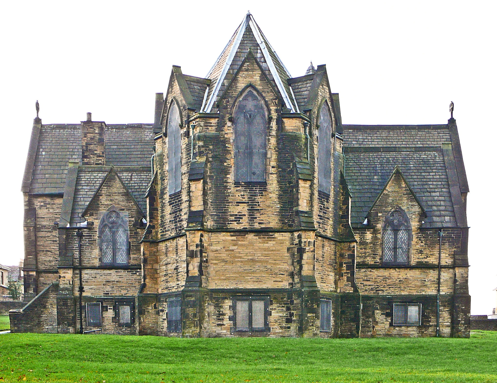 The east end